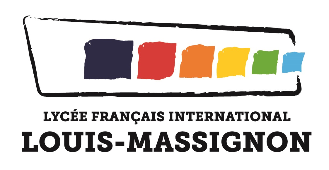 Lycée français international Louis-Massignon Logo